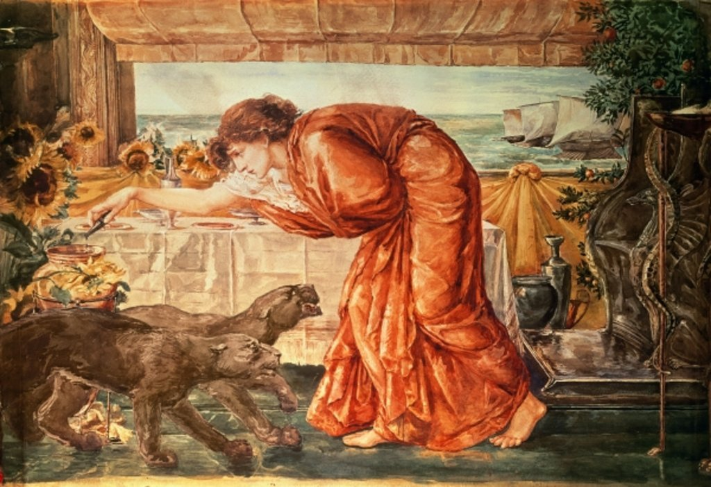 Circe Pouring Poison into a Vase and Awaiting the Arrival of Ulysses